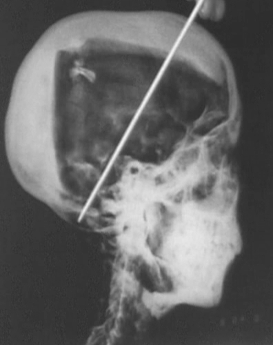 Tutankhamun skull x-ray from the science museum exhibit